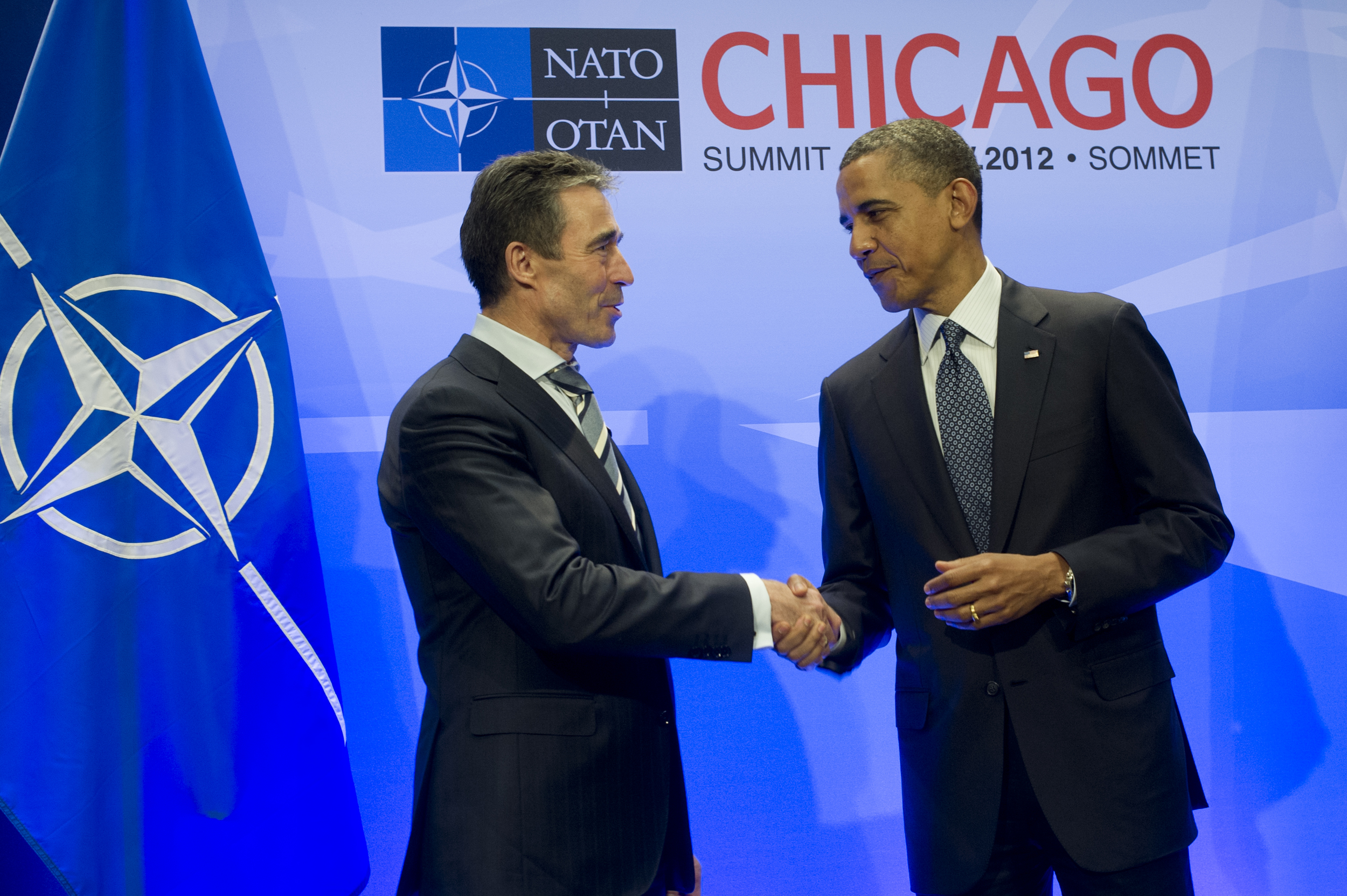 U.S. President Barack Obama, right, thanks NATO Secretary General Anders Fogh Rasmussen at the opening of the NATO summit in Chicago, May 20, 2012.